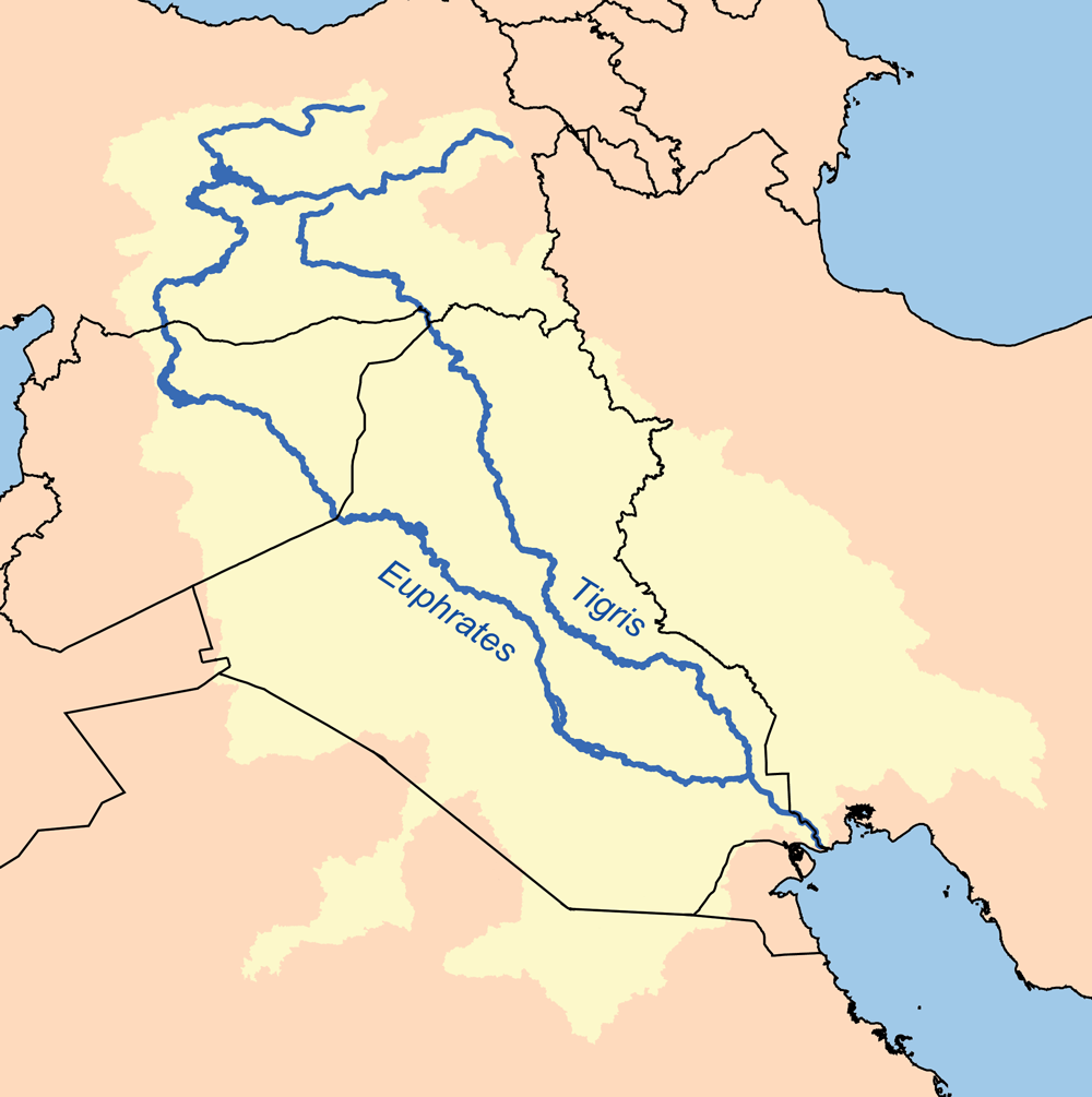 This is a map of the Tigris - Euphrates Watershed. I, Karl Musser, created it based on USGS data.